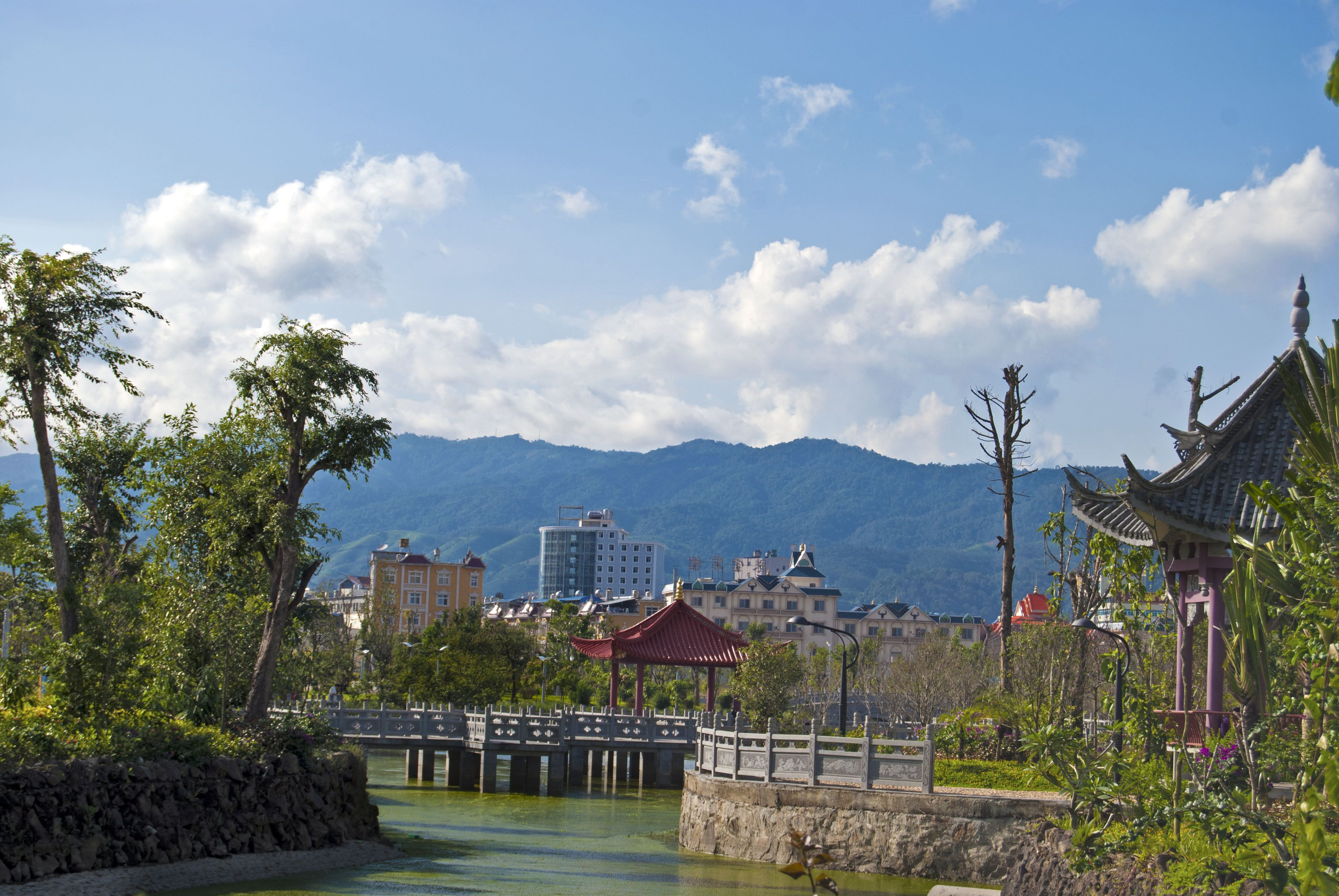 Ruili City, Yunnan, China Taken with Nikon D40X